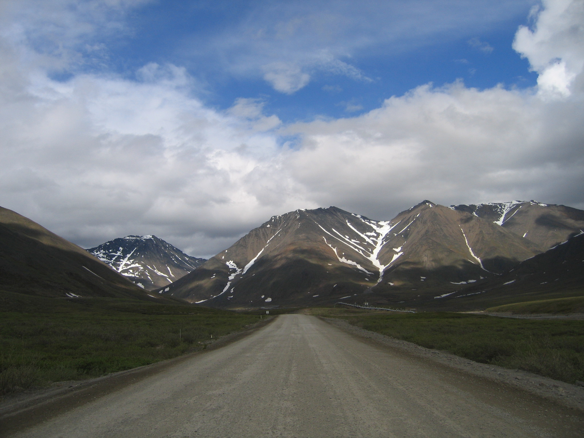 Dalton Highway, Chandalar Shelf